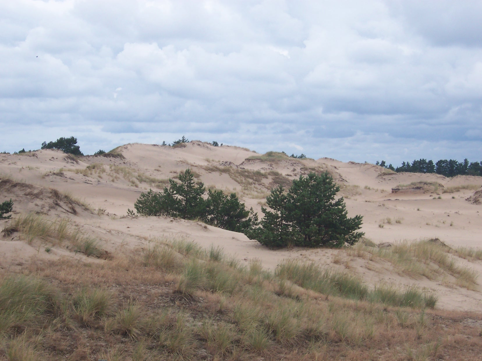 Sand dunes at Słowiński Park Narodowy (National Park) near the Baltic sea coast.